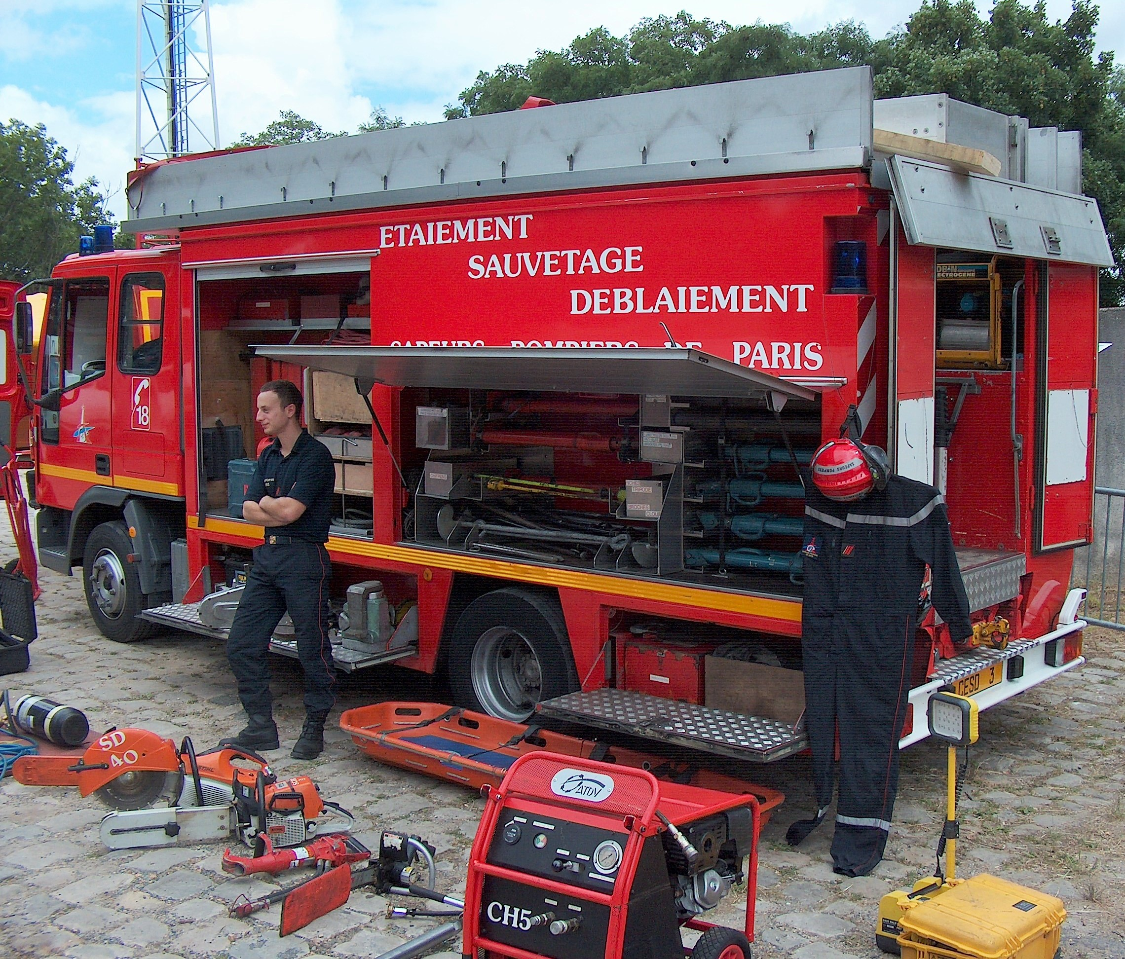 Firefighters' Day in Paris at the fort of Villeneuve Saint Georges in June 2011